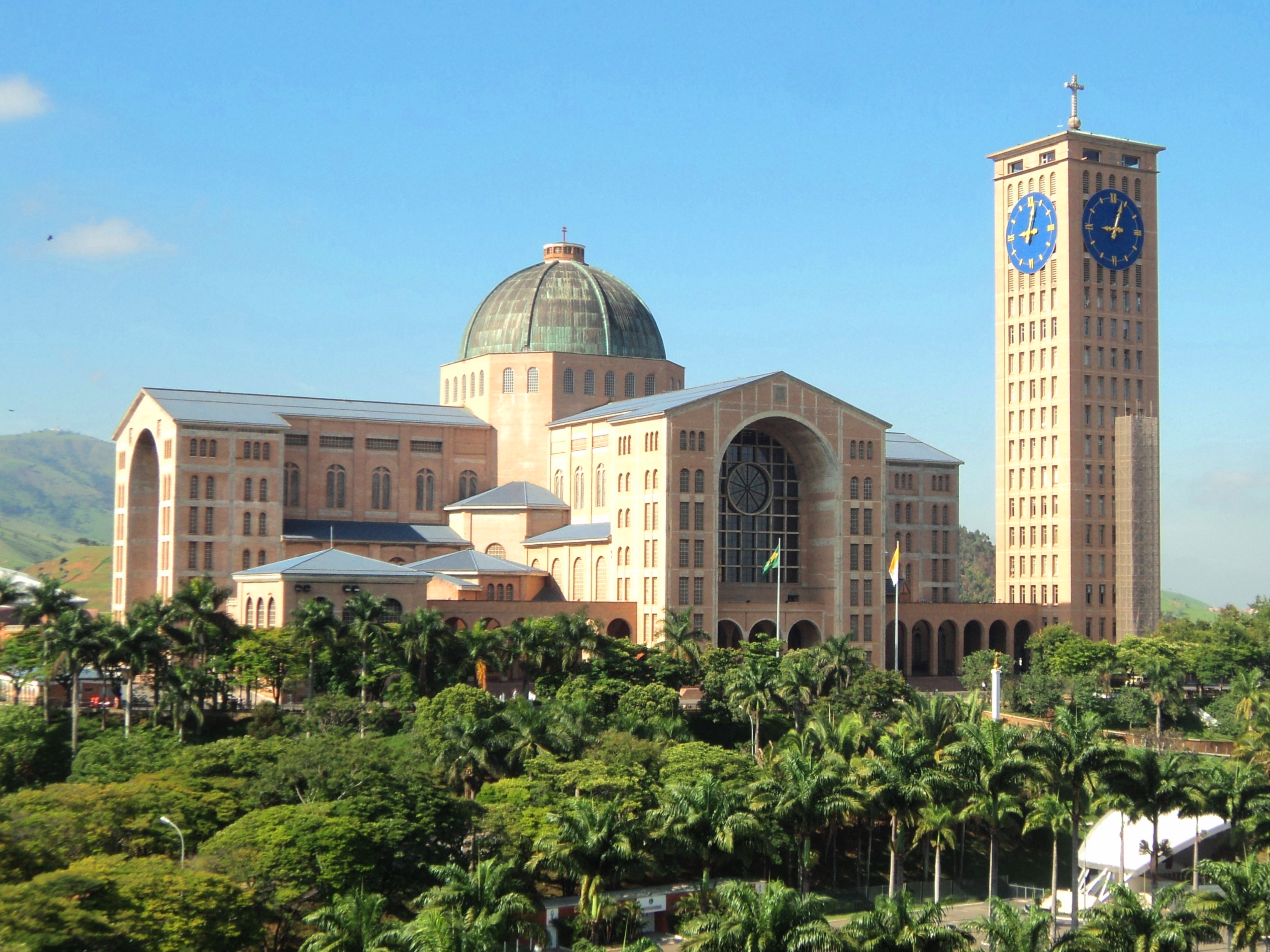 Front of the Basilica of the National Shrine of Our Lady of Aparecida, in Aparecida, São Paulo, Brazil.